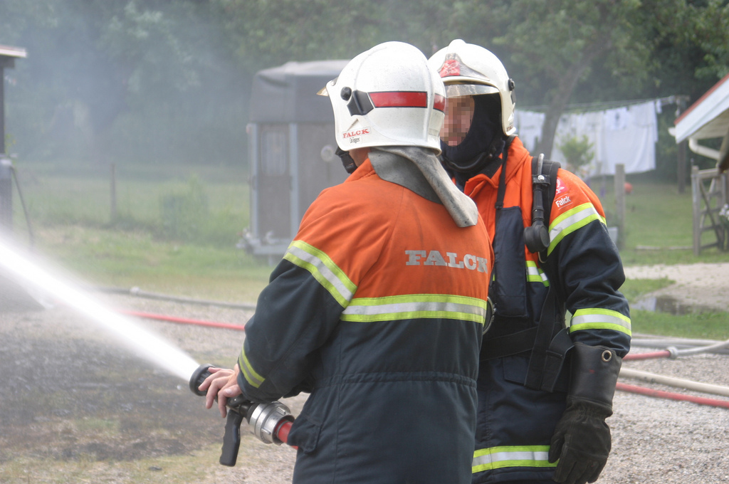 Firefighters of Falck extinguishes a fire